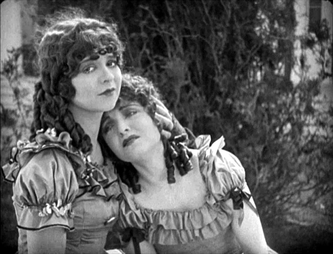 Single frame from newly found (June 2006) lost American drama film Maytime (1923) with Clara Bow and Ethel Shannon.